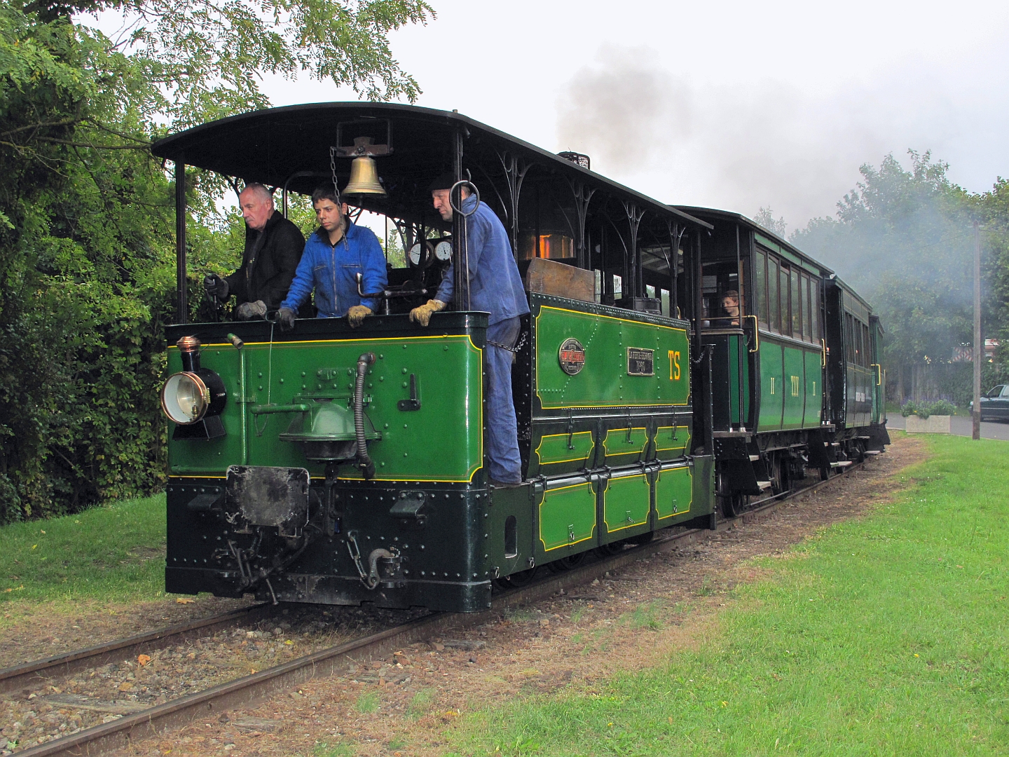 The locomotive 030 T 60 of « Tramways de la Sarthe » with its operating crew, leading a train at Butry-sur-Oise October 3, 2010.